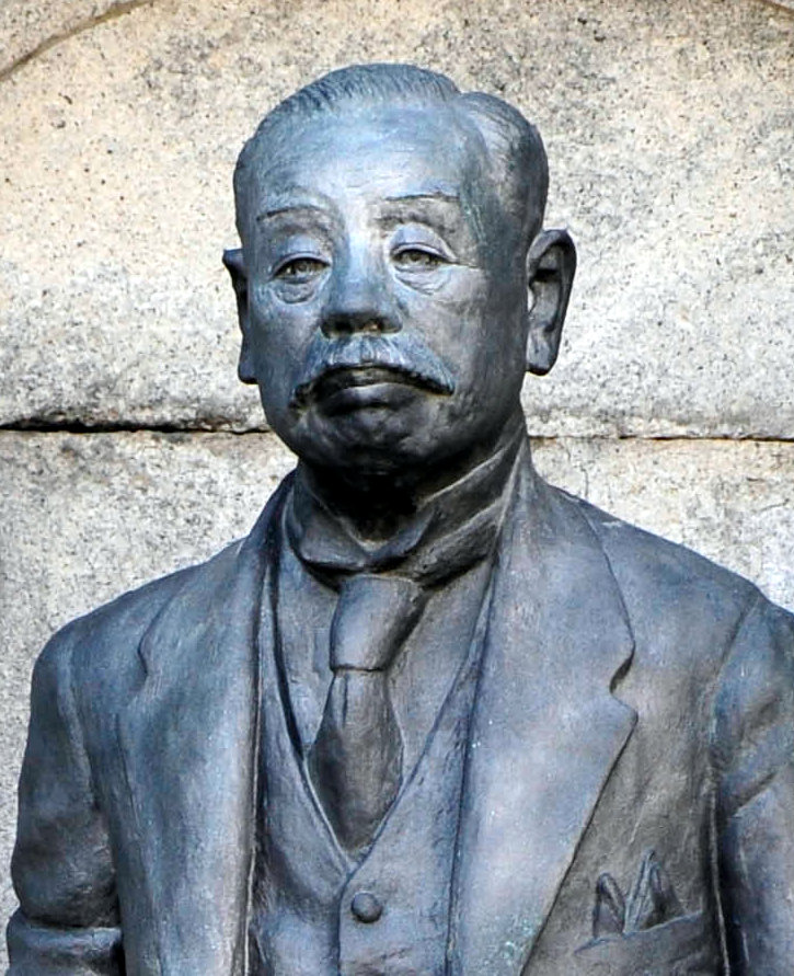 Ozawa Fukutarō ō Juzō is situated in Okaya City, Nagano Prefecture. The statue was made by Naoya Takei.